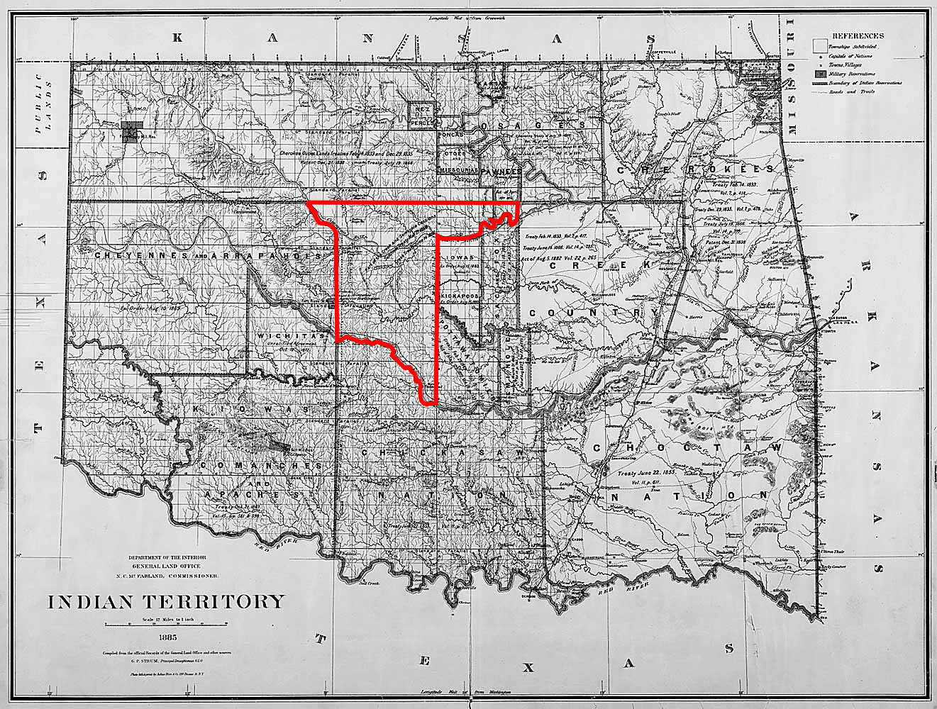 Map of Unassigned Lands (Oklahoma) - 1885 federal government site, public domain (Unassigned Lands outlined in red before posting) Area: 400x302 pix Size: 40.73 kb